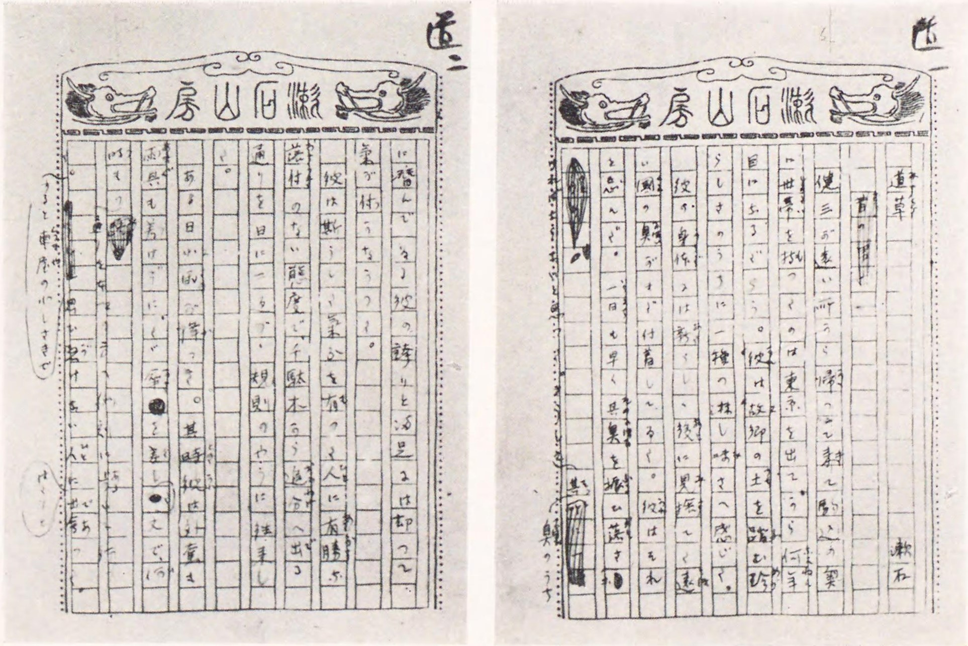 Part of manuscripts of "Grass on the Wayside" by Natsume Soseki.